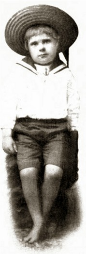 Anthony Wilding at 4 years